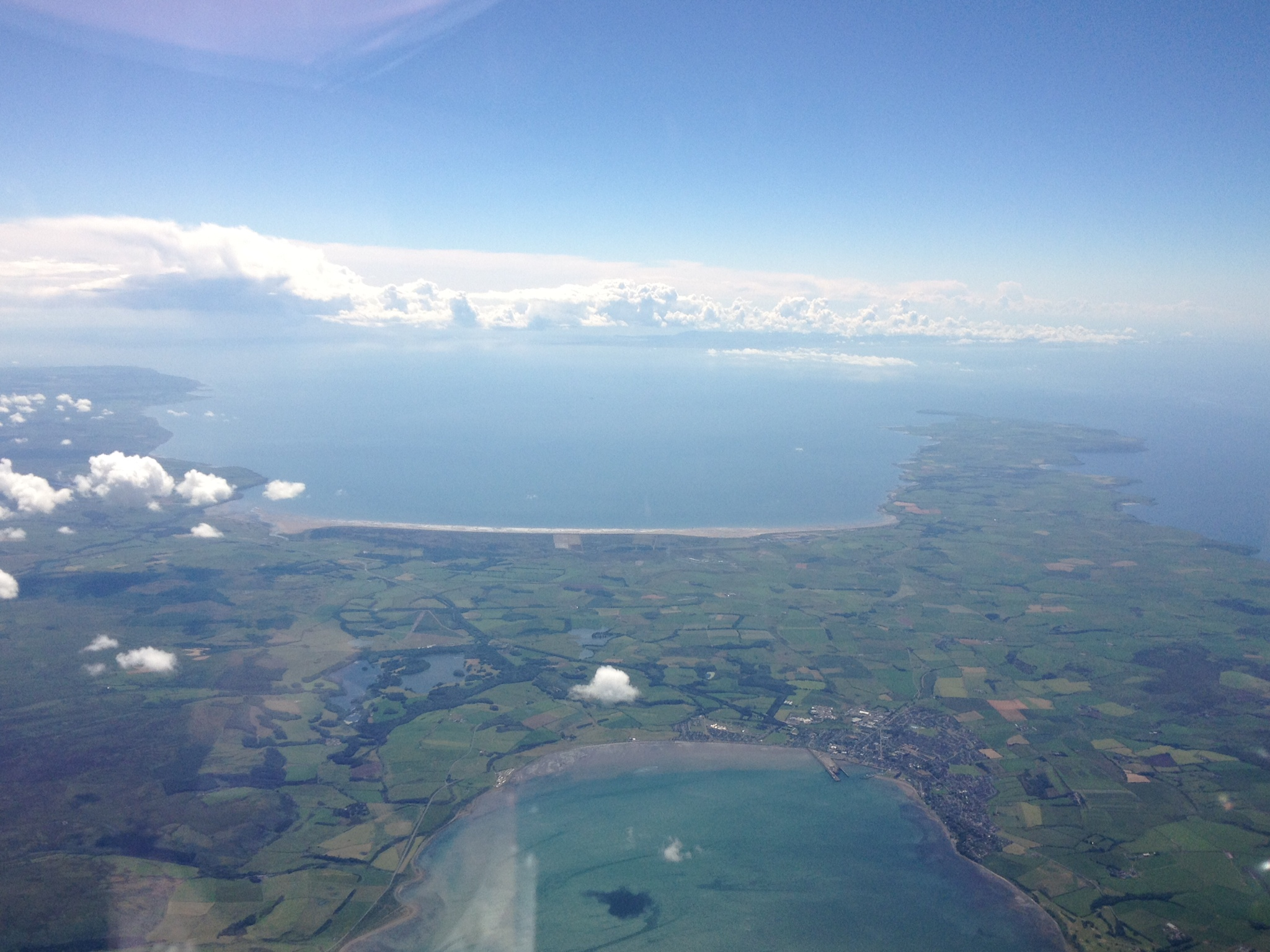 Aerial view across the eastern part on Loch Ryan, over Stranraer and into Luce Bay.